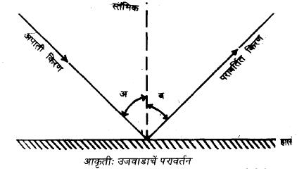 उजवाडोचें परिवर्तन (Reflection of Light)-Konkani Vishwakosh